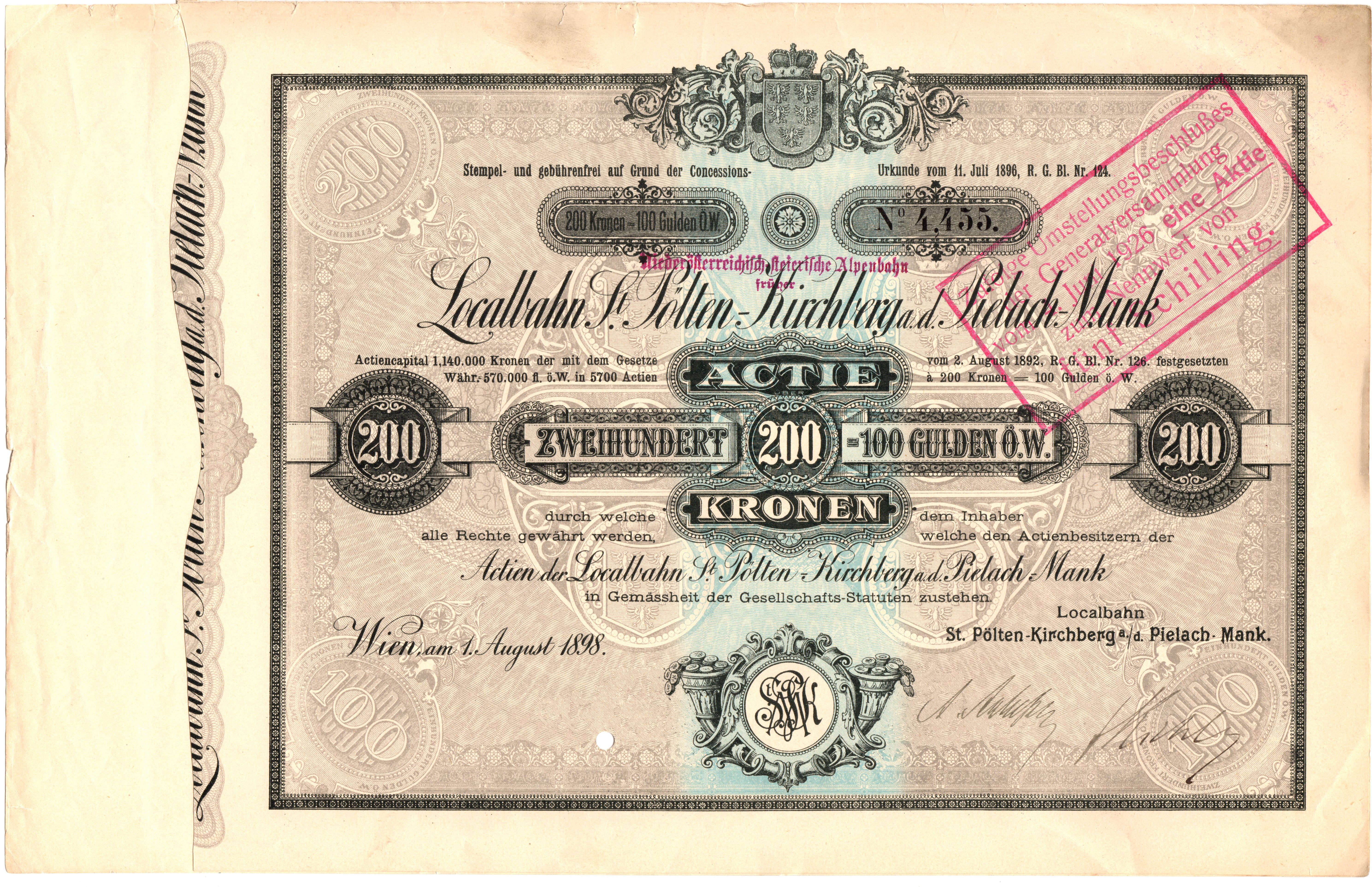 Share of the Lokalbahn St. Pölten-Kirchberg, issued 1st August 1898